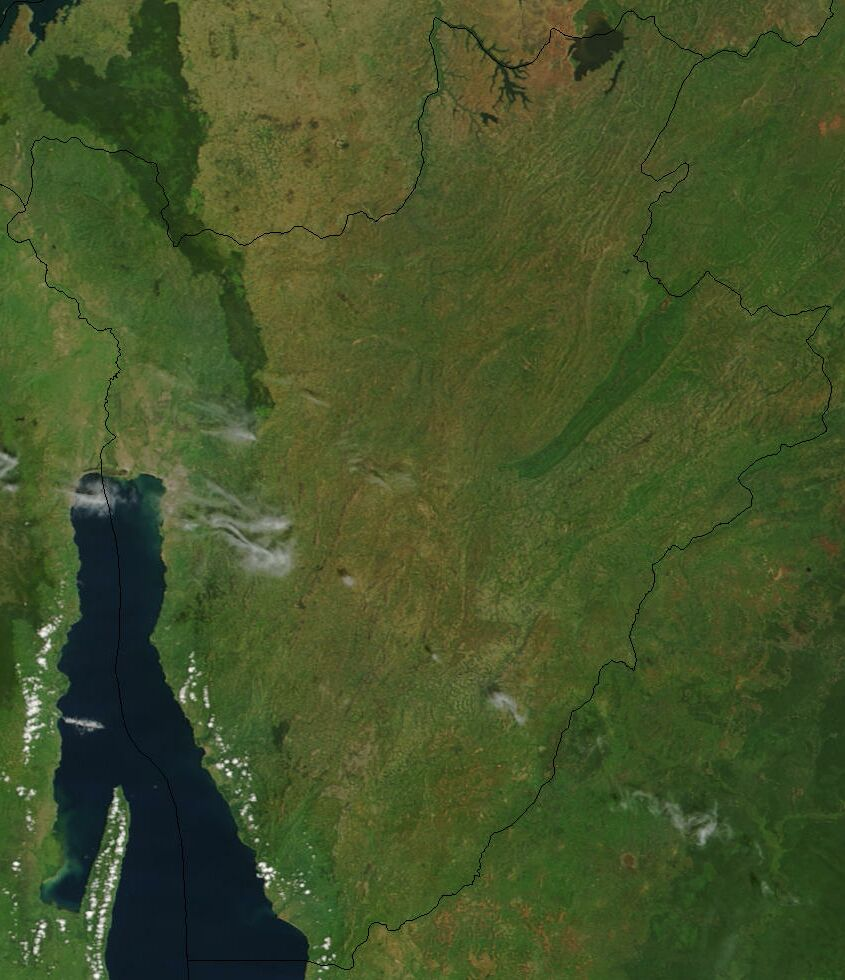 Satellite image of Burundi in February 2003.